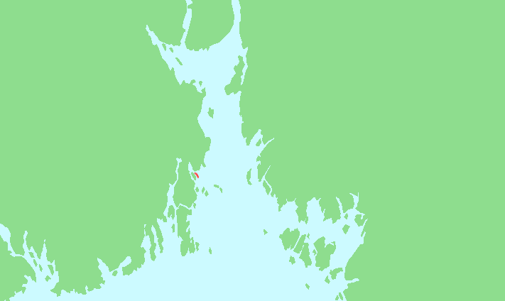 Locator map of Husøy, Vestfold, Norway